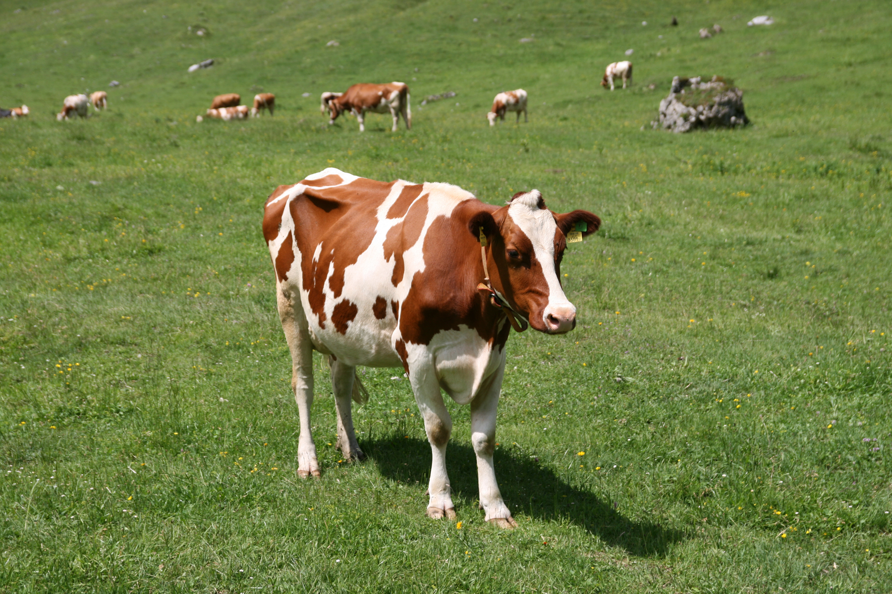 Description: Cattle, colloquially referred to as cows, are domesticated ungulates, a member of the subfamily Bovinae of the family Bovidae. As shown: Simmental (unsure breed identification: rather Red Holstein or a crossbreed individual, maybe Swiss Fleckvieh) is a brown-white cattle breed originating in the Simme valley in Switzerland